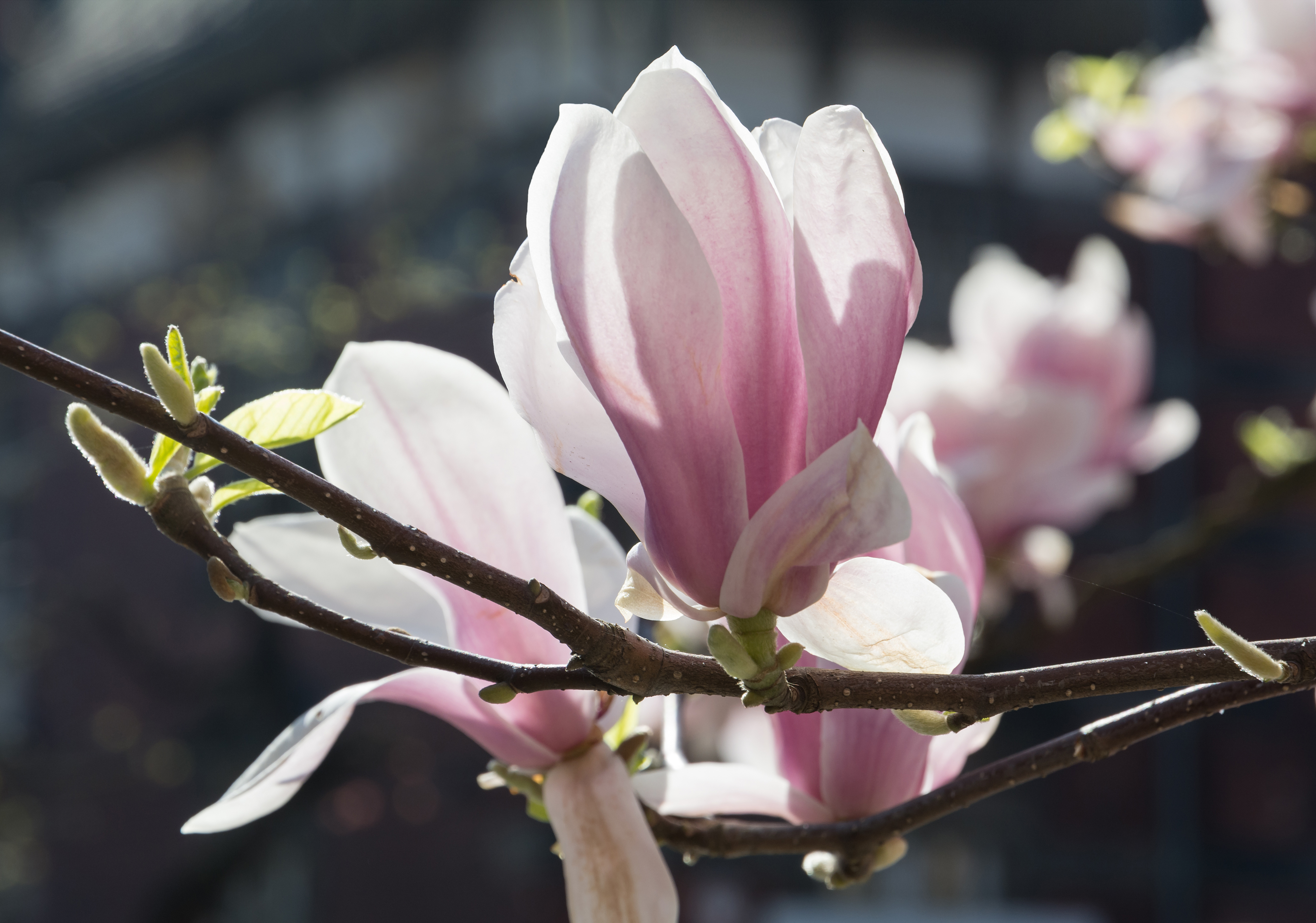 Saucer magnolia, Magnolia × soulangeana, flowers